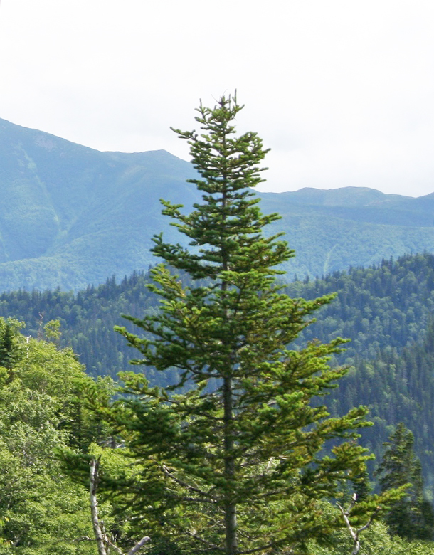 Sakhalin Fir Abies sachalinensis, Gora Lopatina, Sakhalin, Russia